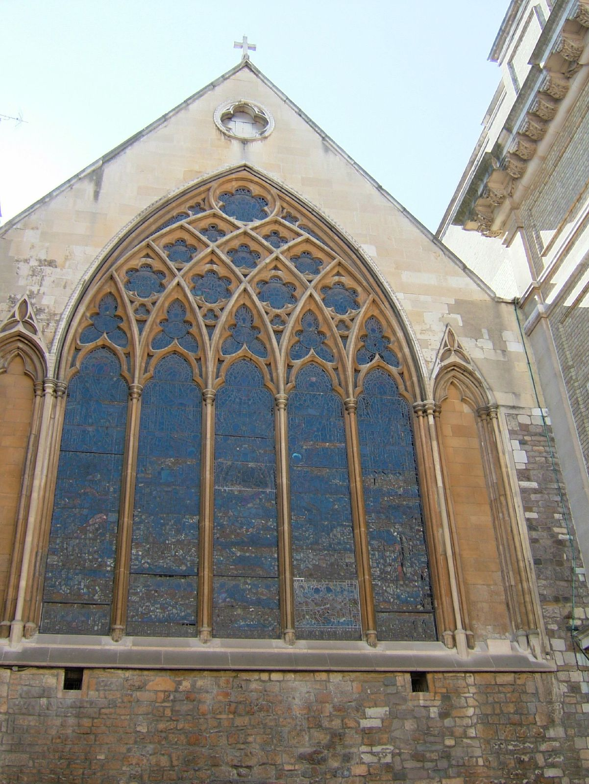 Exterior of St. Etheldreda's, London, as viewed from Ely Place.